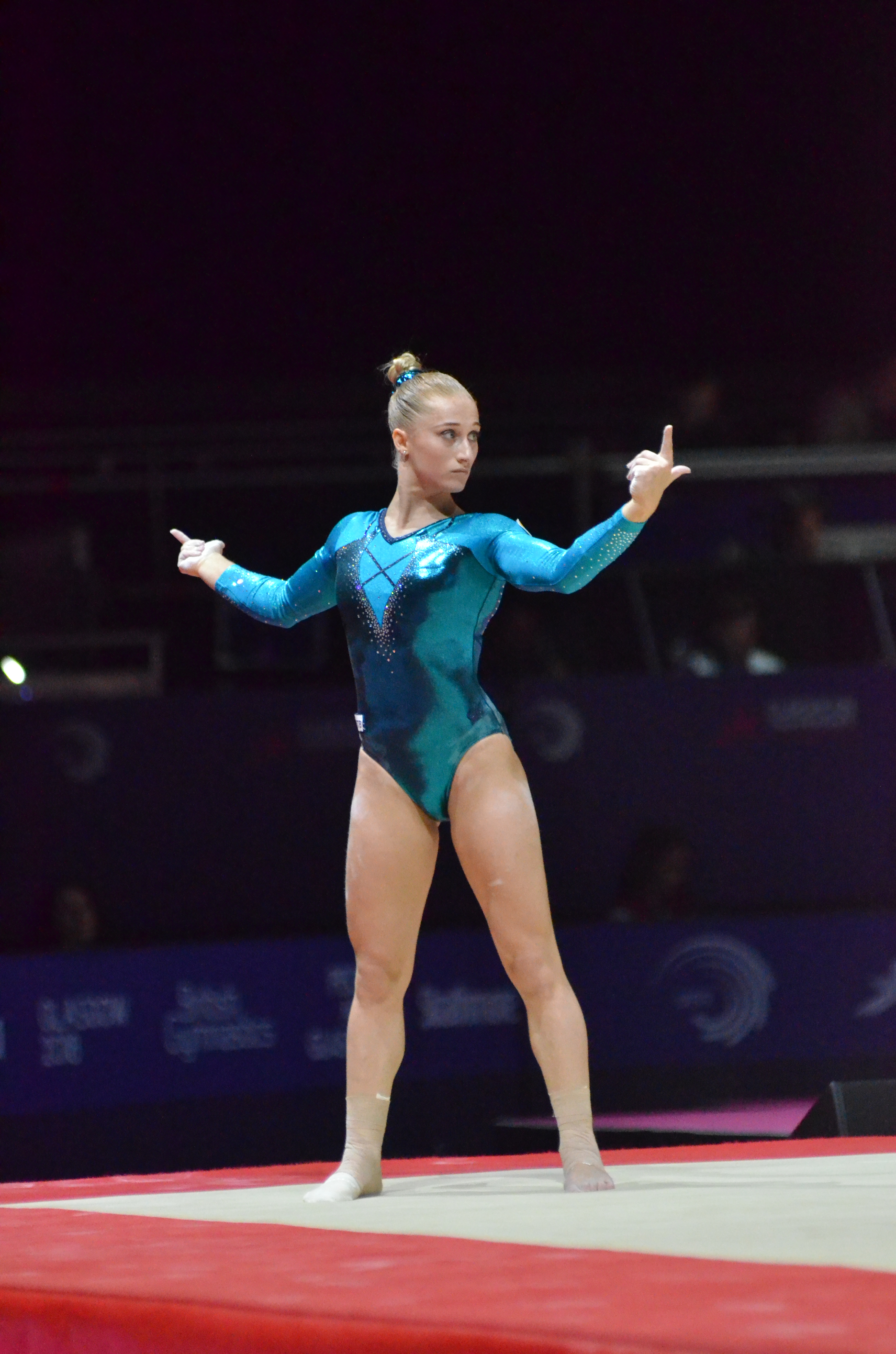 Liliia Akhaimova (RUS) Floor - Subdivision 4 - Rotation 2 - Artistic Gymnastics, European Games Glasgow 2018, SSE Hydro, Glasgow Scotland, August 2nd, 2018 - Photo by Alex Filipov Instagram: a.s.photoz